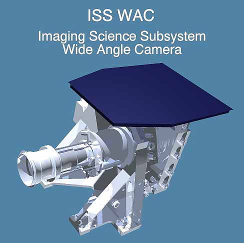 NAC camera of Cassini